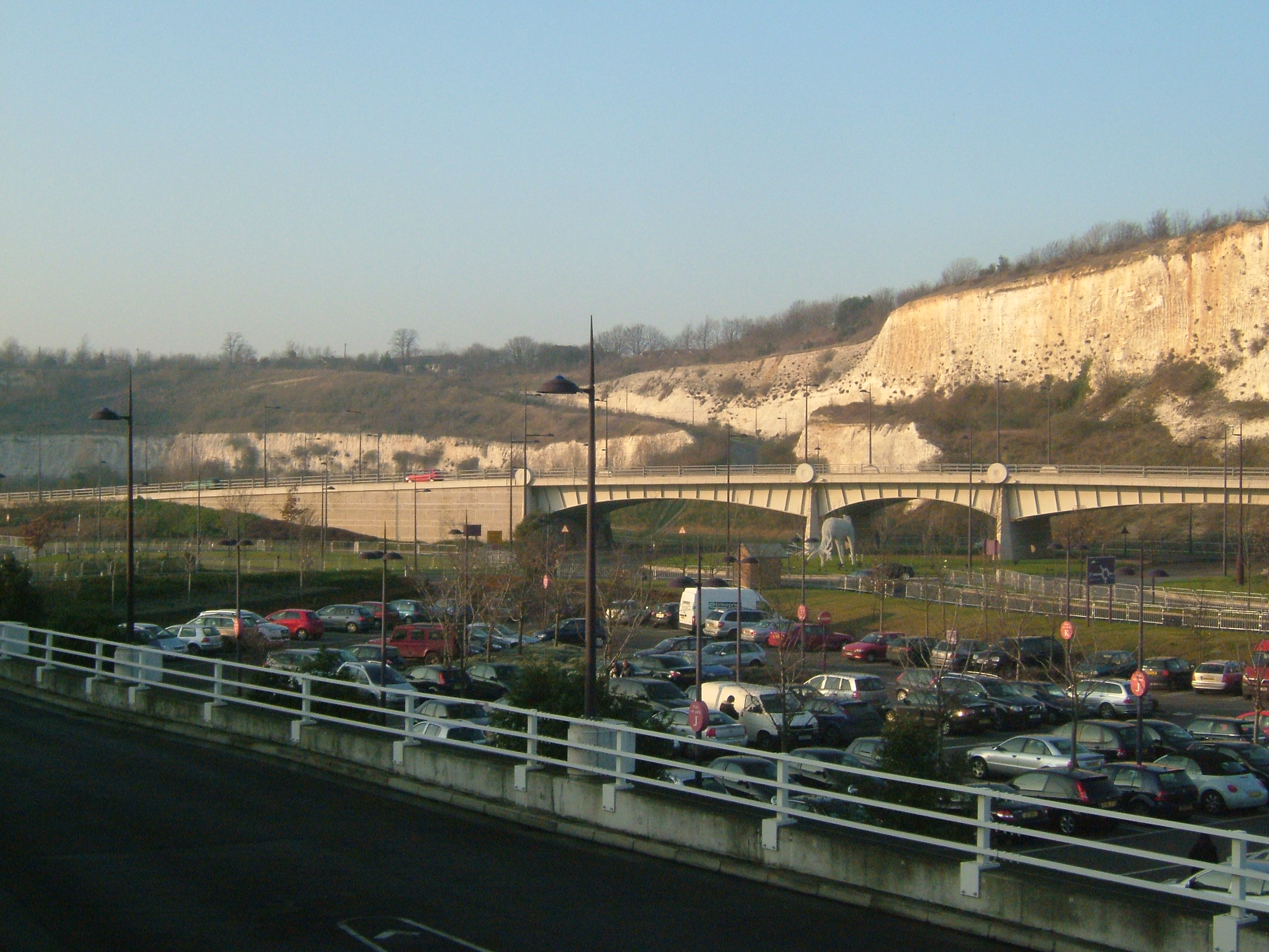 The Bluewater is a large shopping mall, built in a redundant chalk quarry in Dartford is a town in North Kent, England. The entry road descending into the chalkpit, showing the surface carparking, the chalkcliffs - OpenStreetMap (Info)